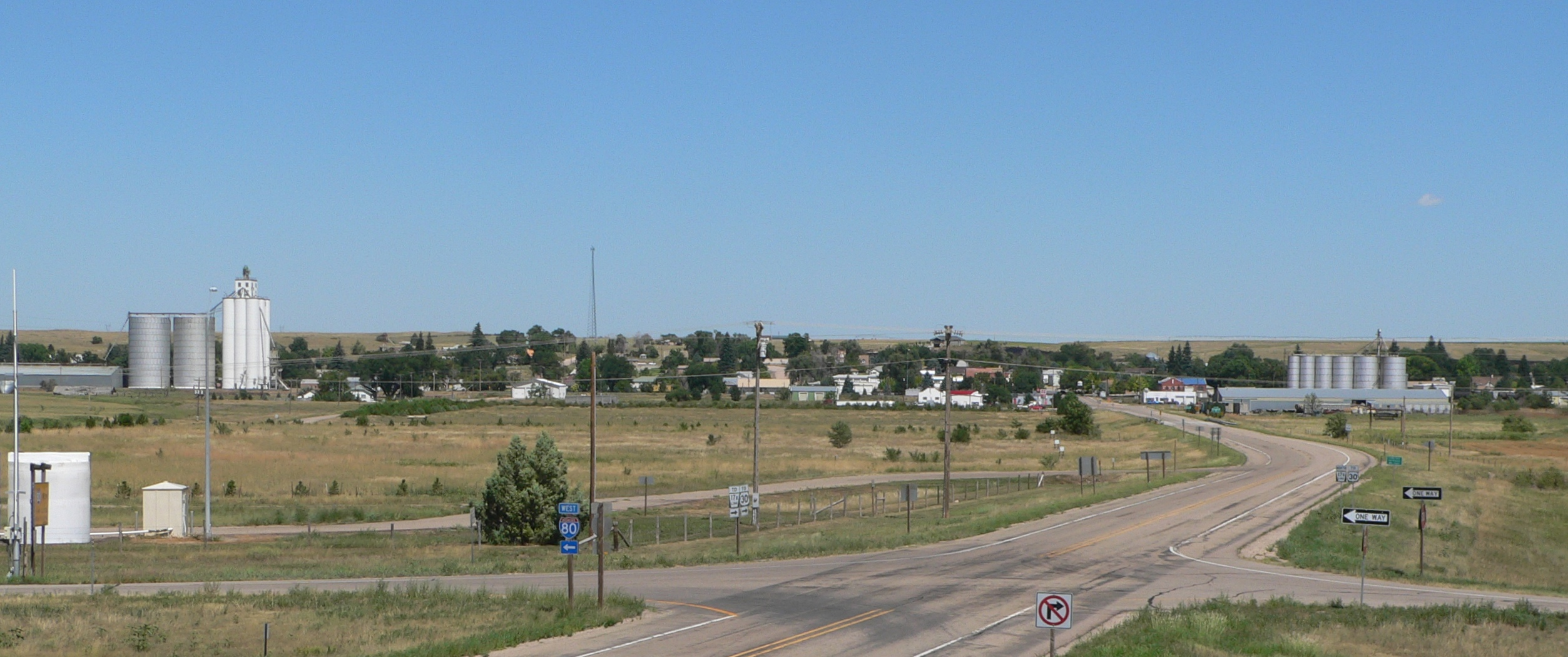 Potter, Nebraska seen from the south, from about Exit 38 on Interstate 80.